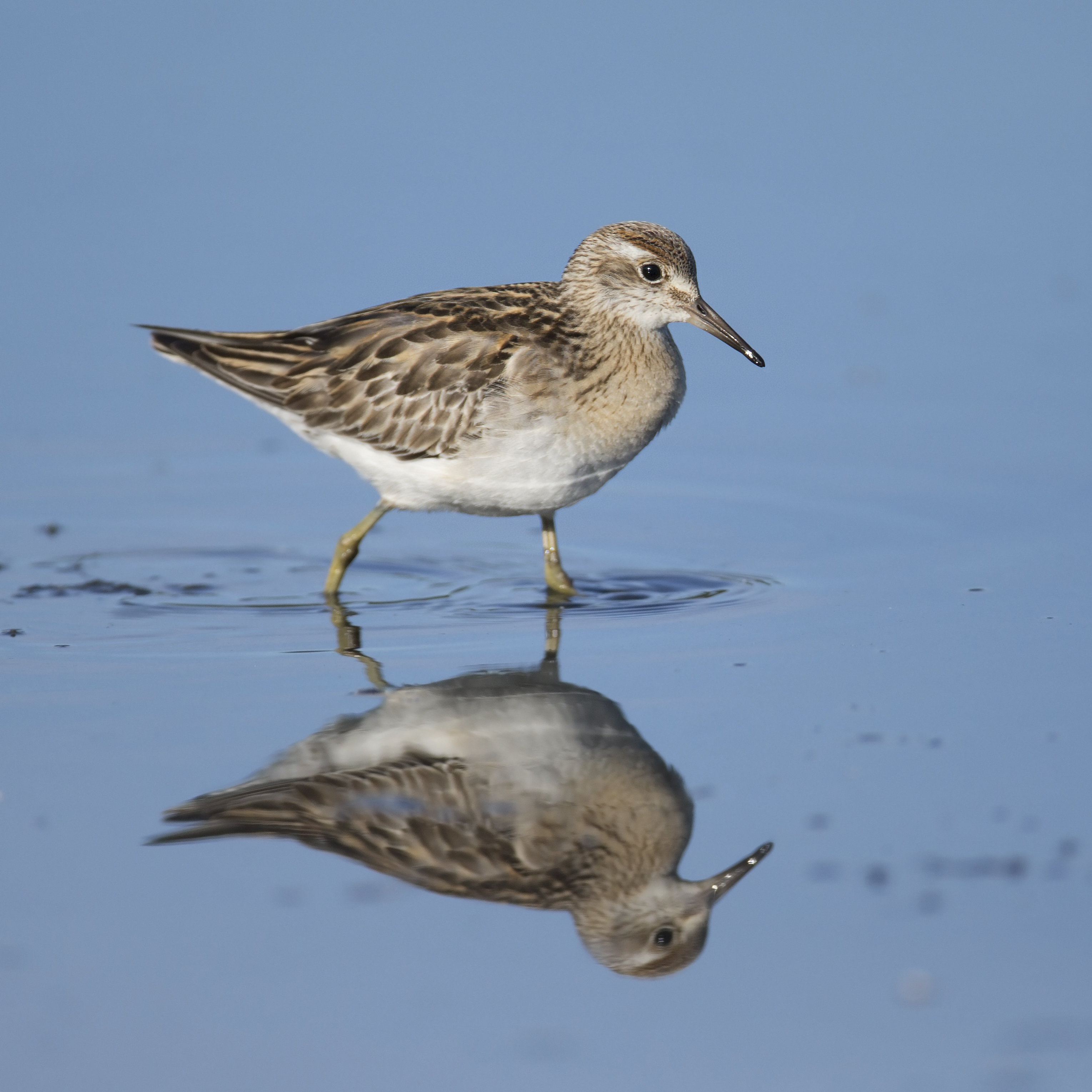 Sharp-tailed Sandpiper (Calidris acuminata), Sydney Olympic Park, New South Wales, Australia